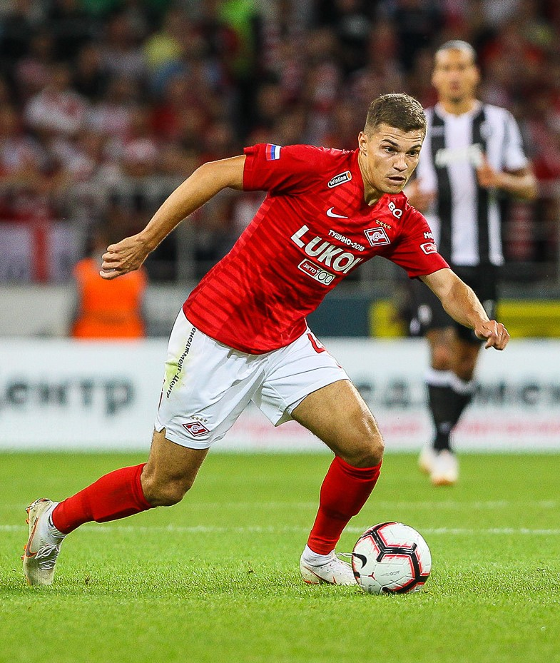 Spartak Moscow VS. PAOK 14 august 2018